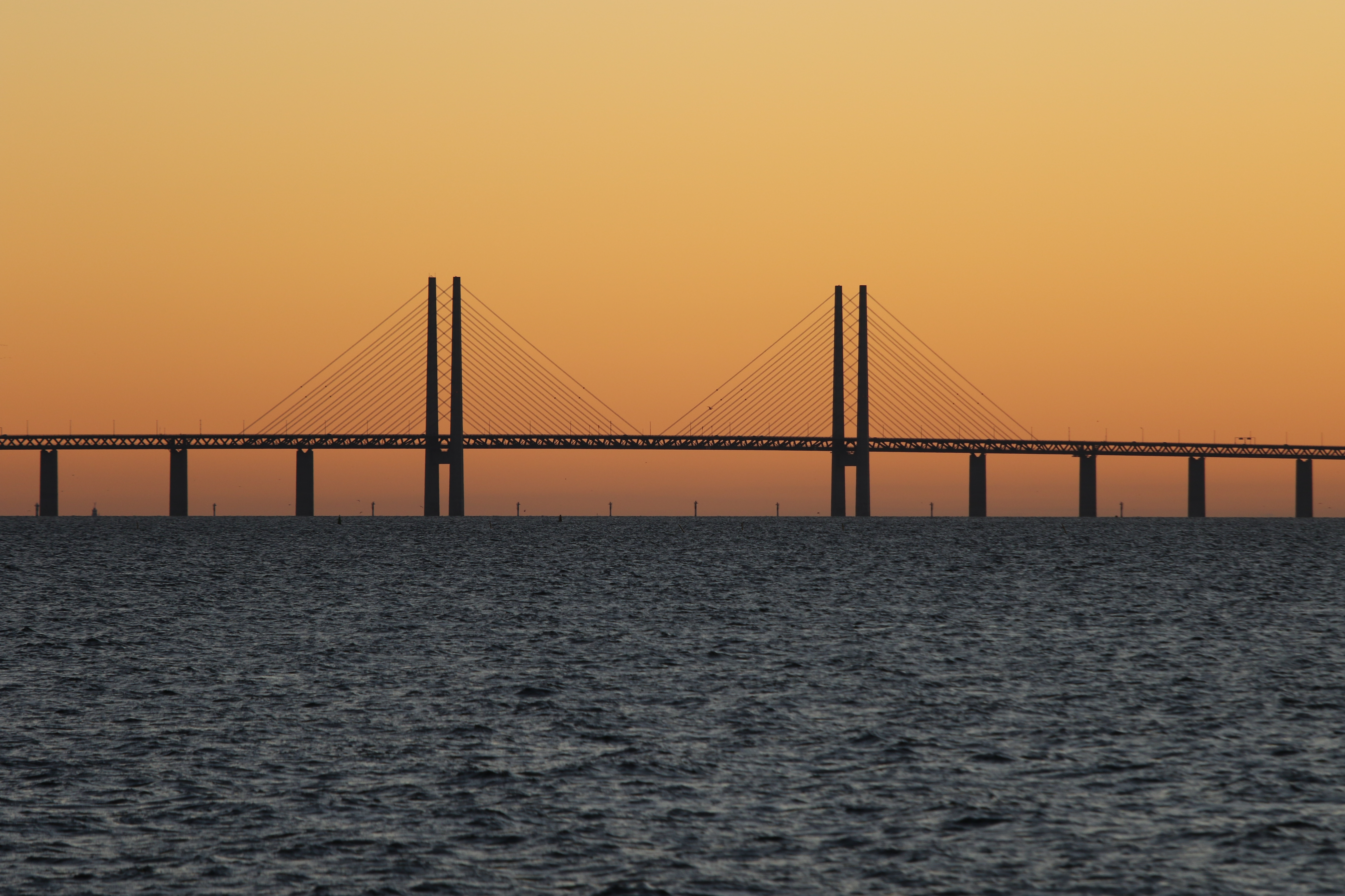 Malmö, Sweden